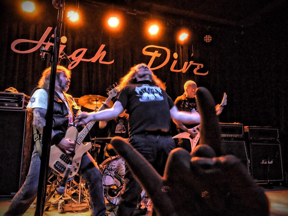 Picture of band performing